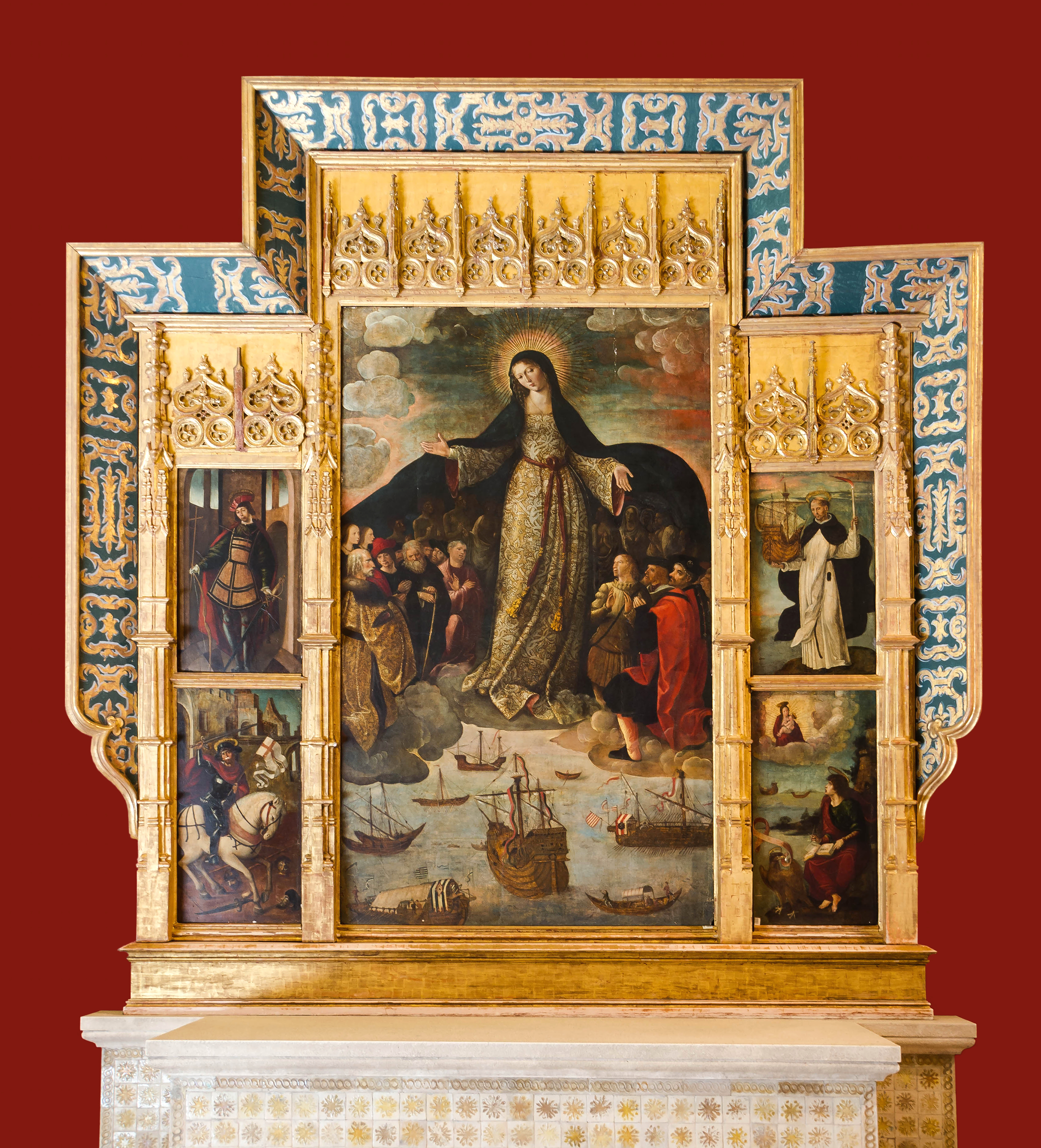 Altarpiece of the Virgin of the Navigators, (or "of the good Breeze"), by Alejo Fernandez, 1535. Around the Virgin, one of the figures is Christopher Columbus. This was the first time American natives had been depicted in European art. One can see different types of vessels of the spanish fleet of the 16th century. The four side panels, from top to bottom and for left to right, show Saint Sebastian, Saint James, Saint Telmo and Saint John the Evangelist. It was here that the sailors bound for the Americas prayed for a good wind to assist them in their crossing, and Juan Sebastián Elcano gave thanks here after completing the first ever circumnavigation of the Earth. Real Alcázar of Seville, Spain.